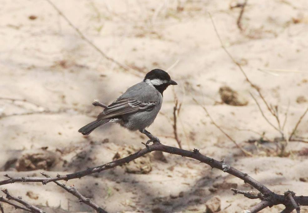 Ashy tit along the Trans-Kalahari Corridor between Kang and the South African border